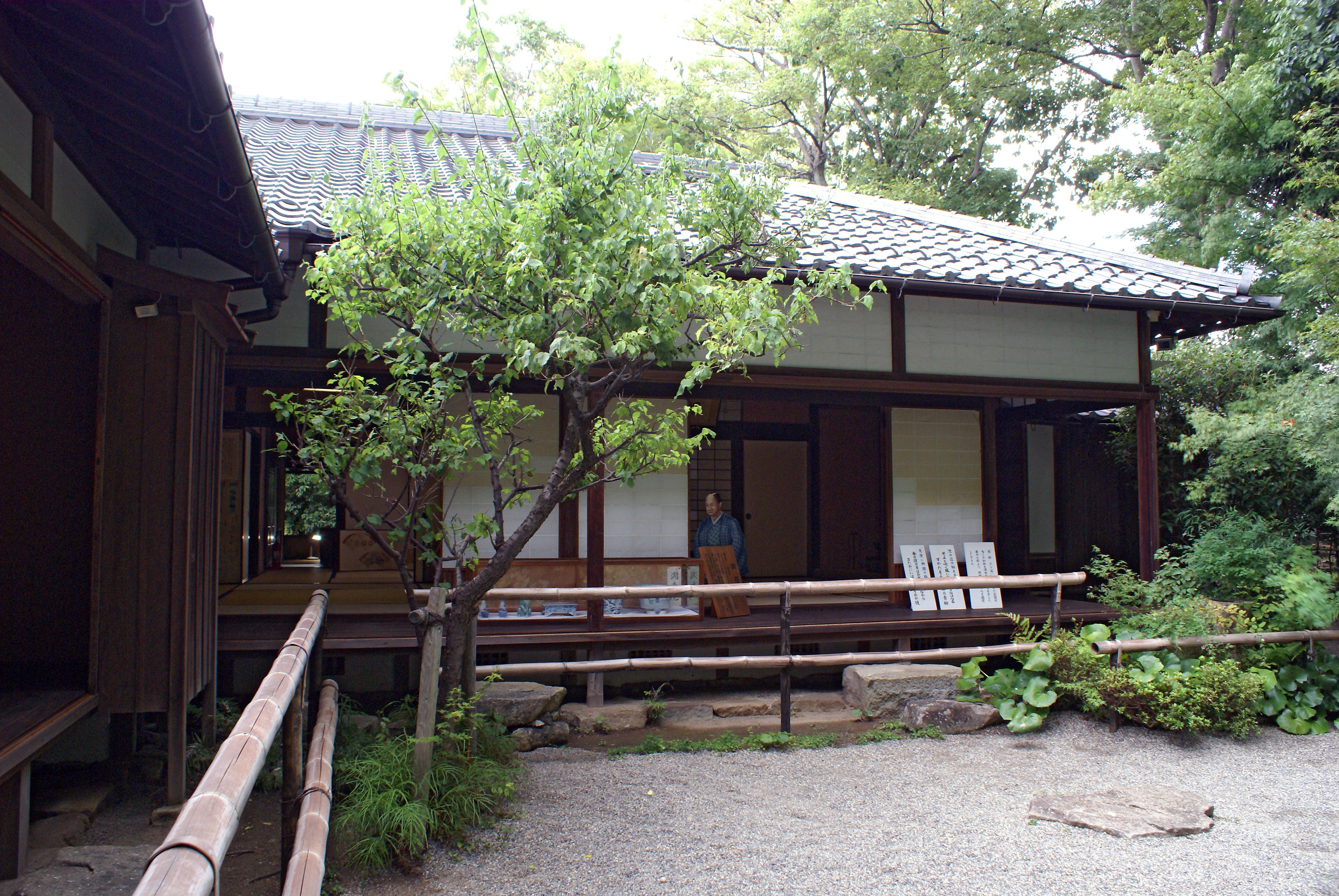 Umoreginoya in Hikone, Shiga prefecture, Japan